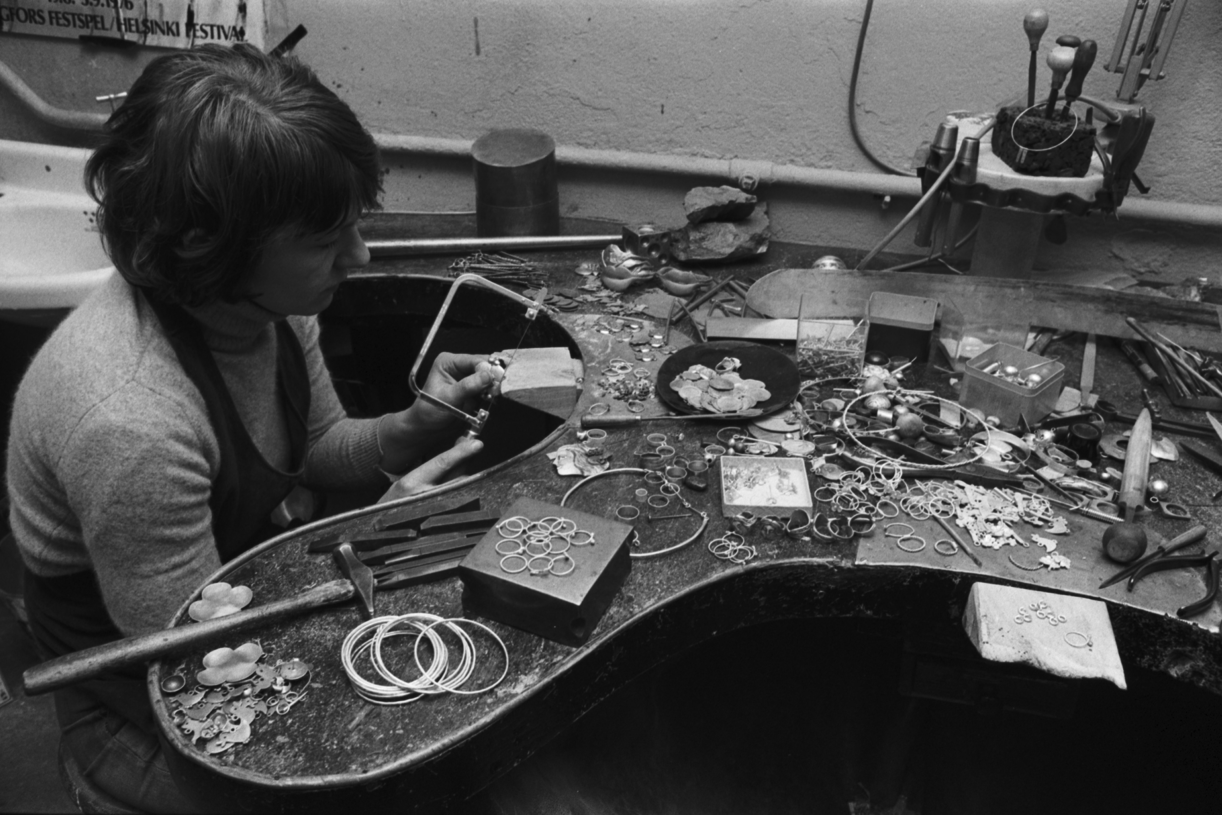 Photograph of the Finnish sculptor Eila Minkkinen (1945–), at her studio, Fredrikinkatu 26, Helsinki.